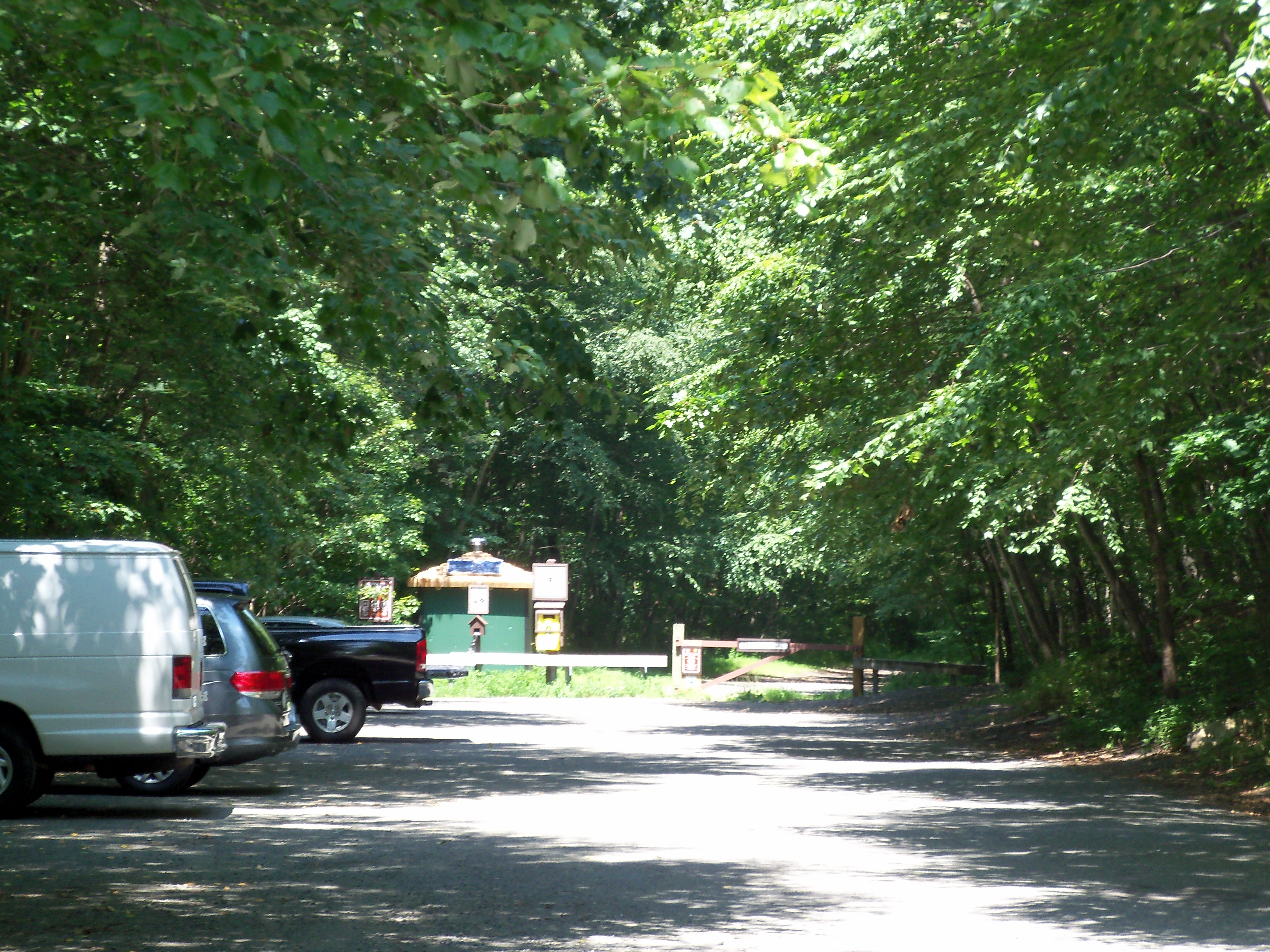 Allamuchy State Park